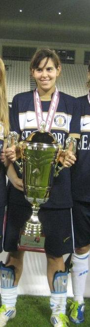 Gisella brandi - Champion Women´s Cup